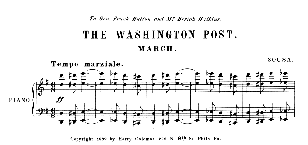 Washington Post (march) sheet music, 1889